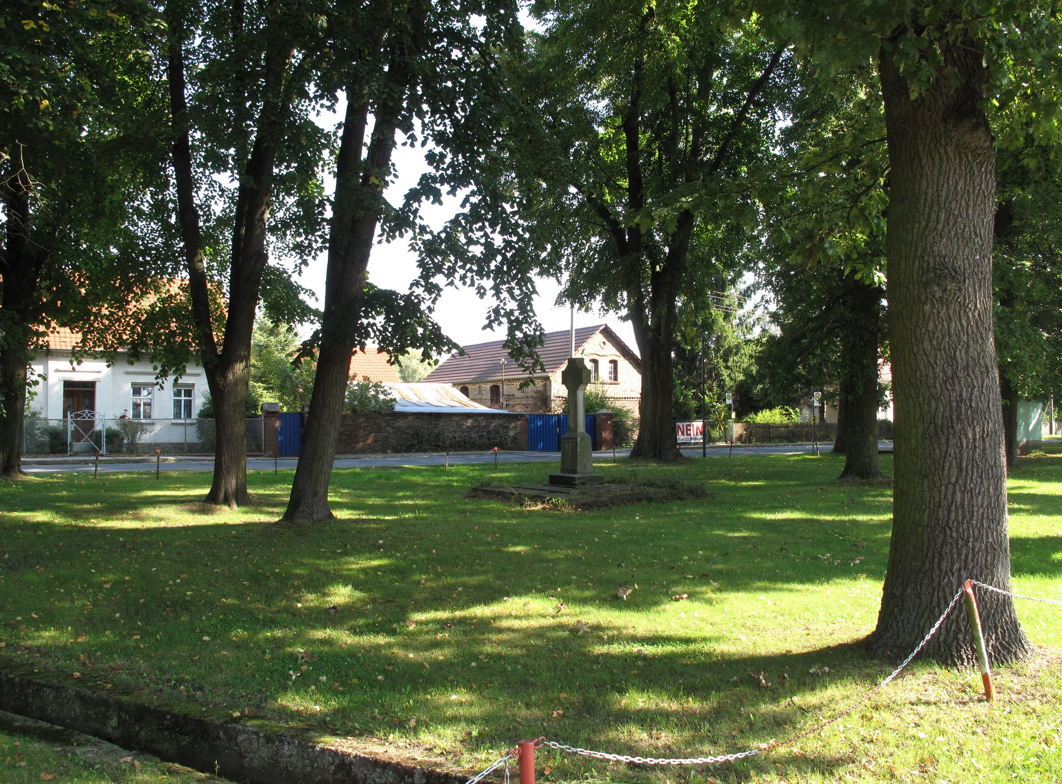 Village green in Giesensdorf, a part of the municipality Tauche in the District Oder-Spree, Brandenburg, Germany.